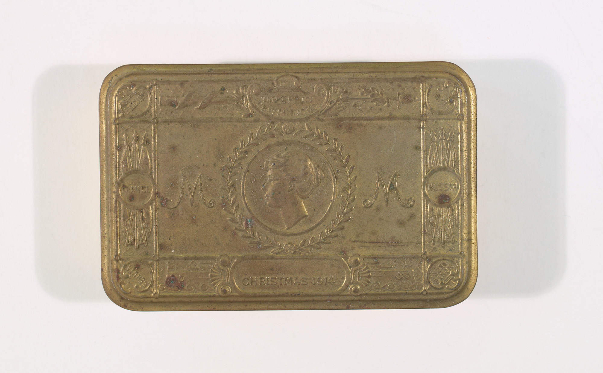 Princess Mary box (includes original Christmas card and picture of Princess Mary with it's original envelope) owned by Thomas McDonald, Regiment no. 9197